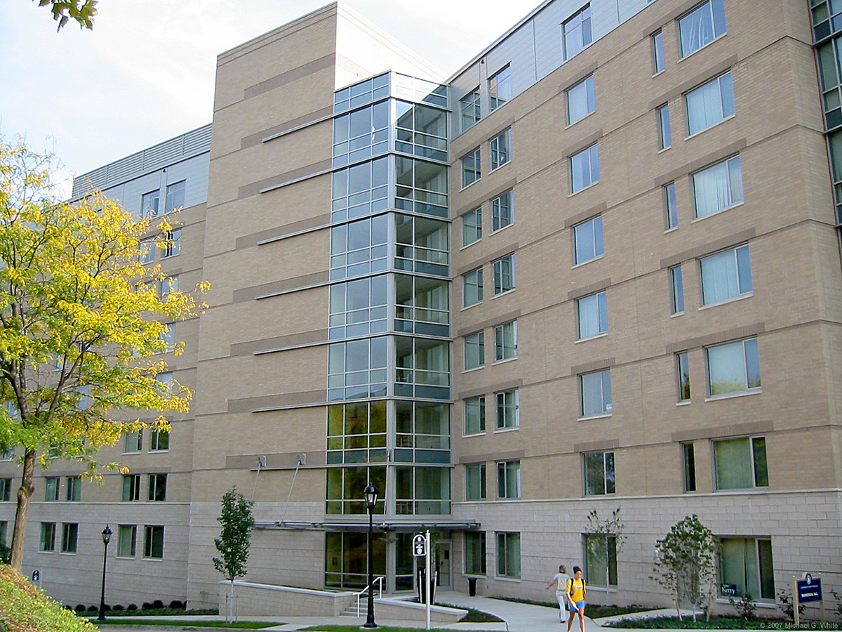 Pennsylvania Hall, a residence hall at the University of Pittsburgh. photo by Michael G White